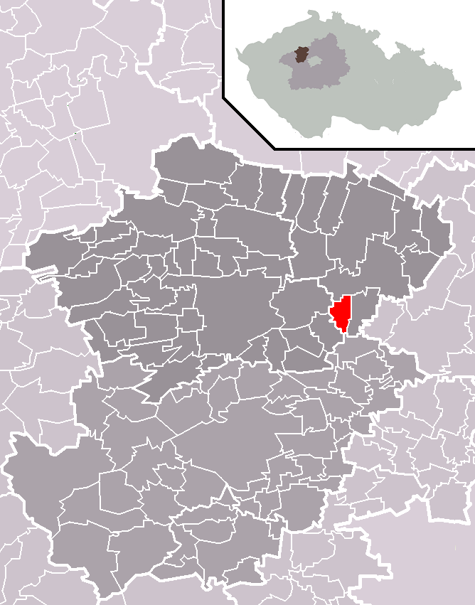 Location of Kamenný Most municipality within Kladno District and administrative area of Slaný as a Municipality with Extended Competence.